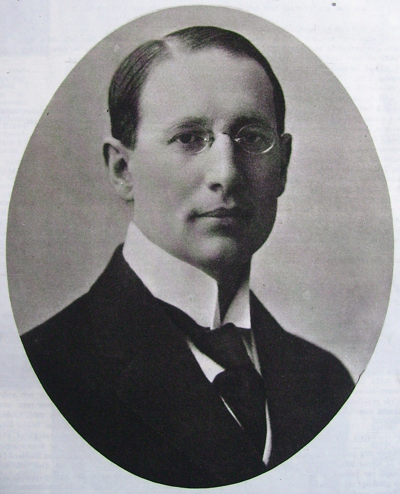 Picture of Walter Ahlström, Finnish industrialist